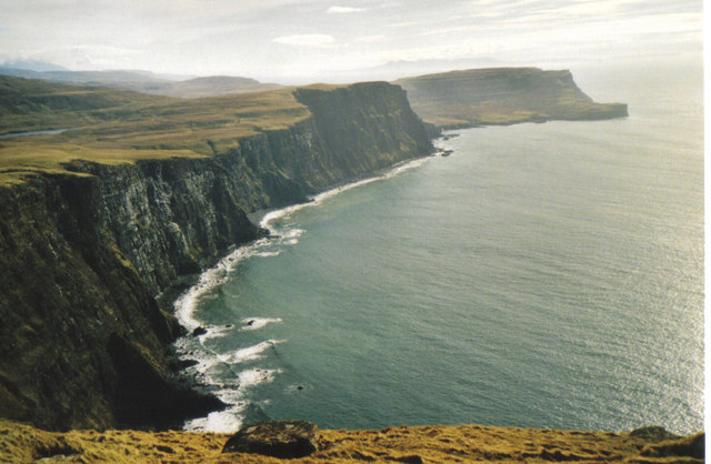 Moonen Bay This view over Moonen Bay was taken from Waterstein Head. The waters of Moonen Bay were once fished by Gavin Maxwell for basking shark from his base on the Isle Of Soay. It is good to know that the basking sharks return every Summer still, and can now enjoy this wonderful place without fear. The Duirinish coastal path runs along these cliff tops. They make an exhilarating walk at any time of the year